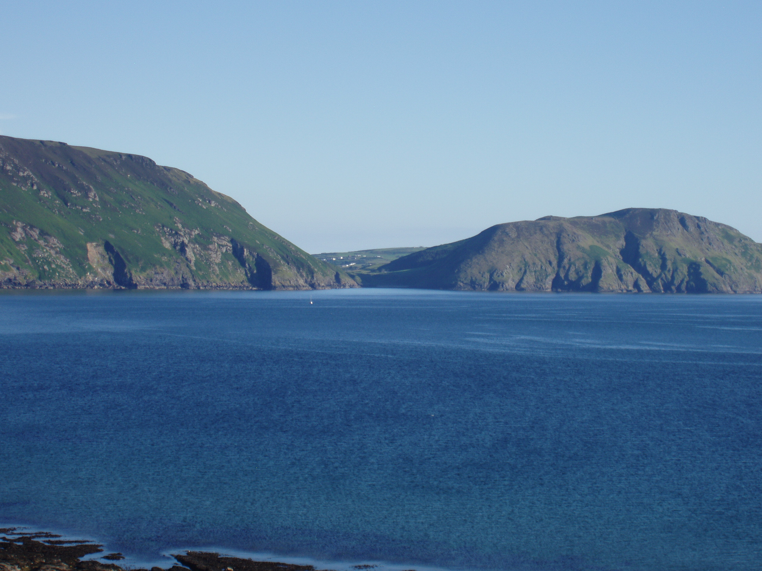 Niarbyl Bay and the southwest coastline of Isle of Man including Bradda Head (on right) as viewed from Niarbyl. The houses seen in the inlet are near Surby, just uphill from Port Erin (behind Bradda Head in this picture).